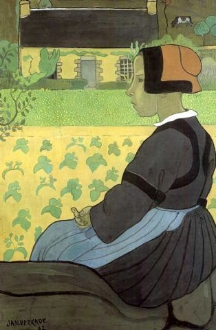 Paysanne de St. Nolff